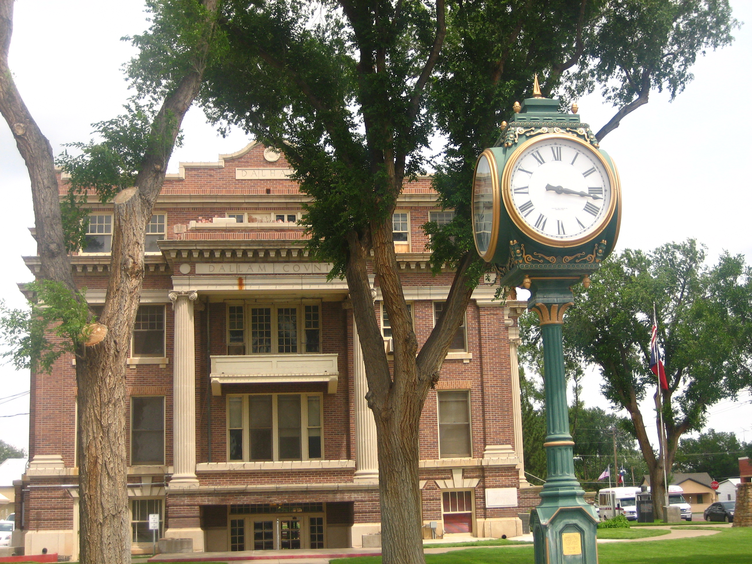 The Dallam County Courthouse. I took photo on July 14, 2008.Billy Hathorn (talk) 02:31, 18 September 2008 (UTC)